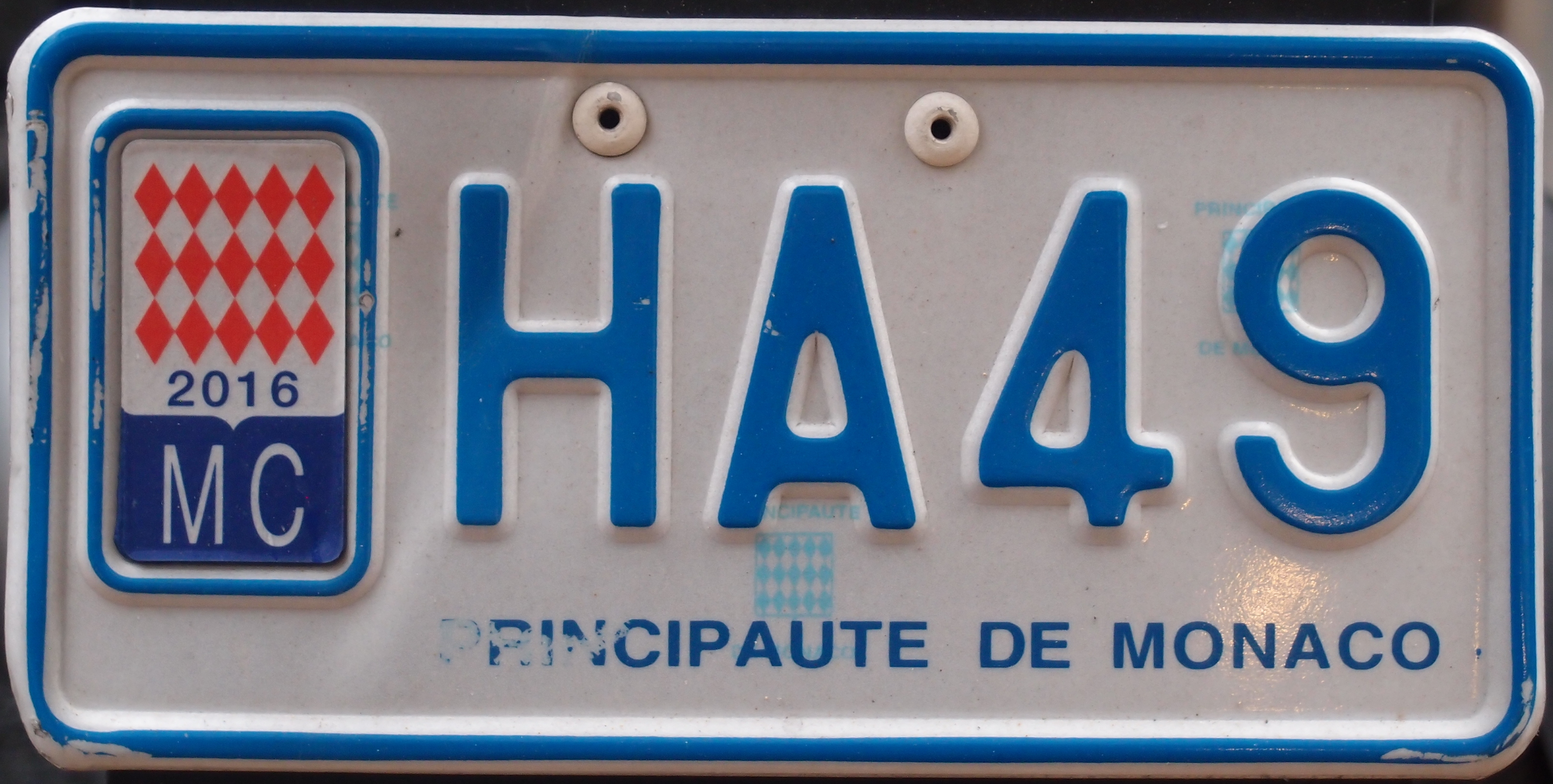 Monaco motorcycle registration plate